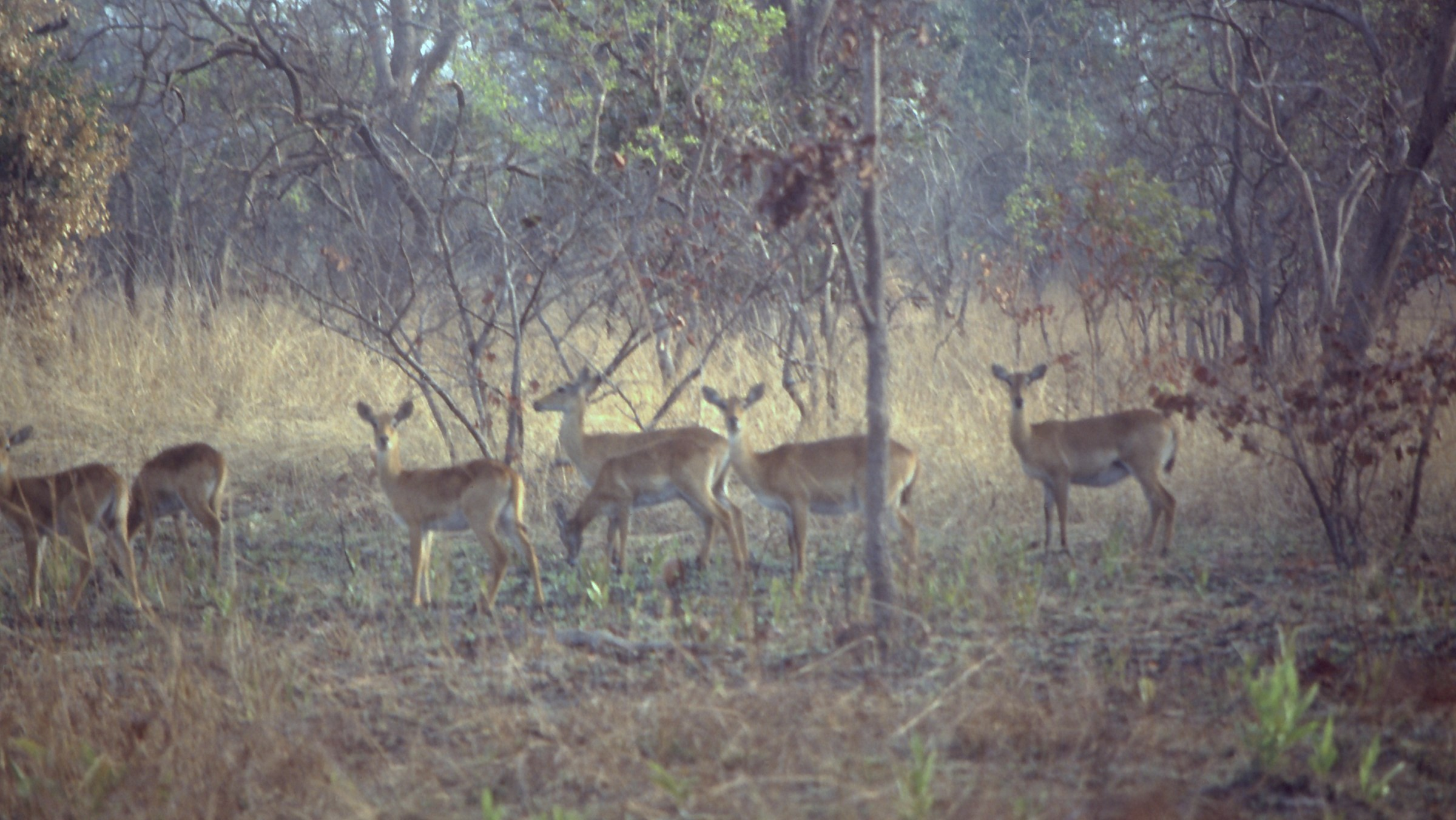 Bob antelopes at Comoé National Park, Ivory Coast, 1990